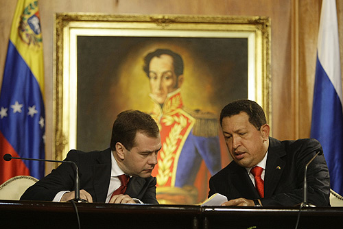 CARACAS. With President of Venezuela Hugo Chávez.